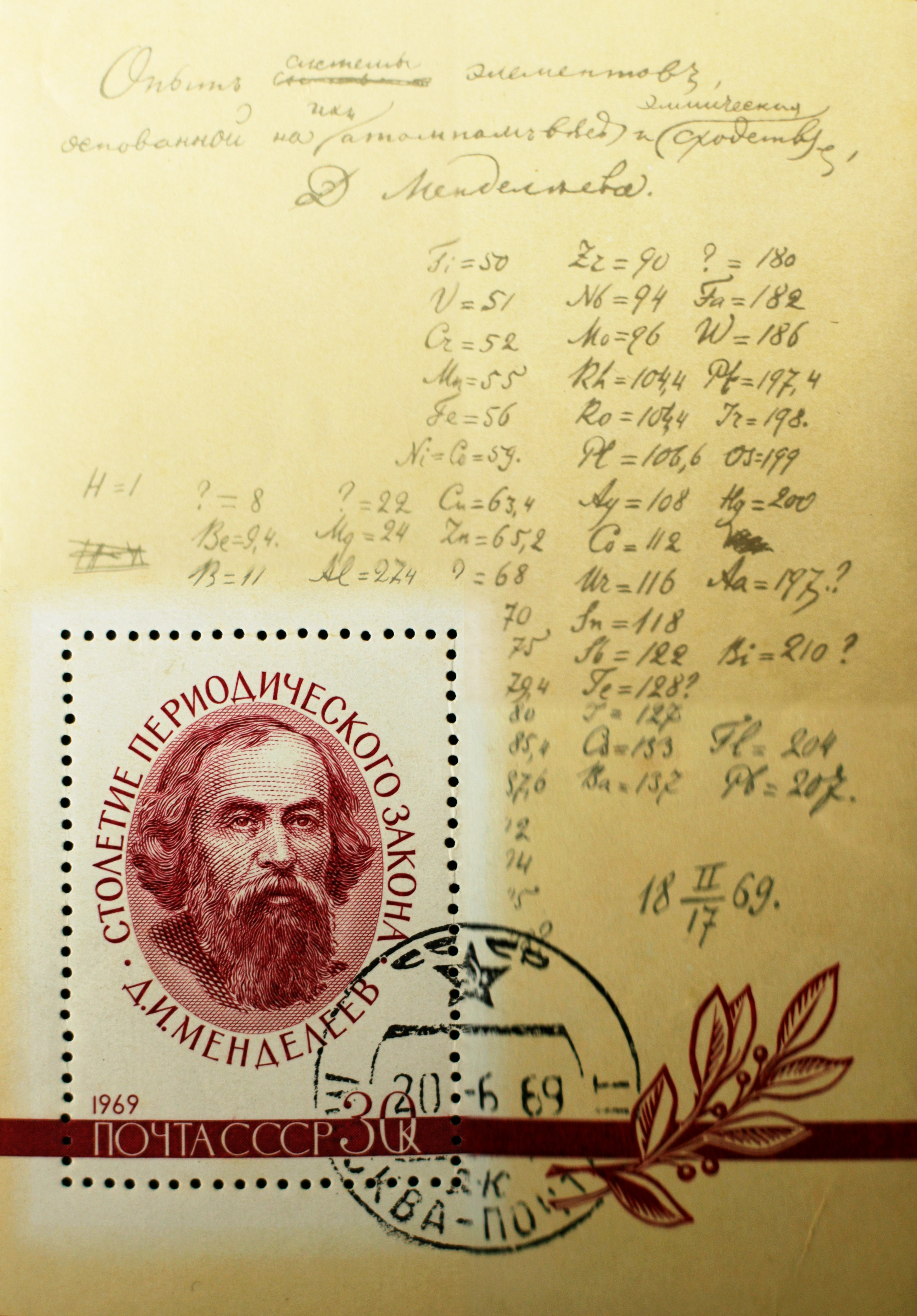 Soviet souvenir sheet with the founder of the periodic system of elements: Dmitri Mendeleev. 100th anniversary of periodic table of elements